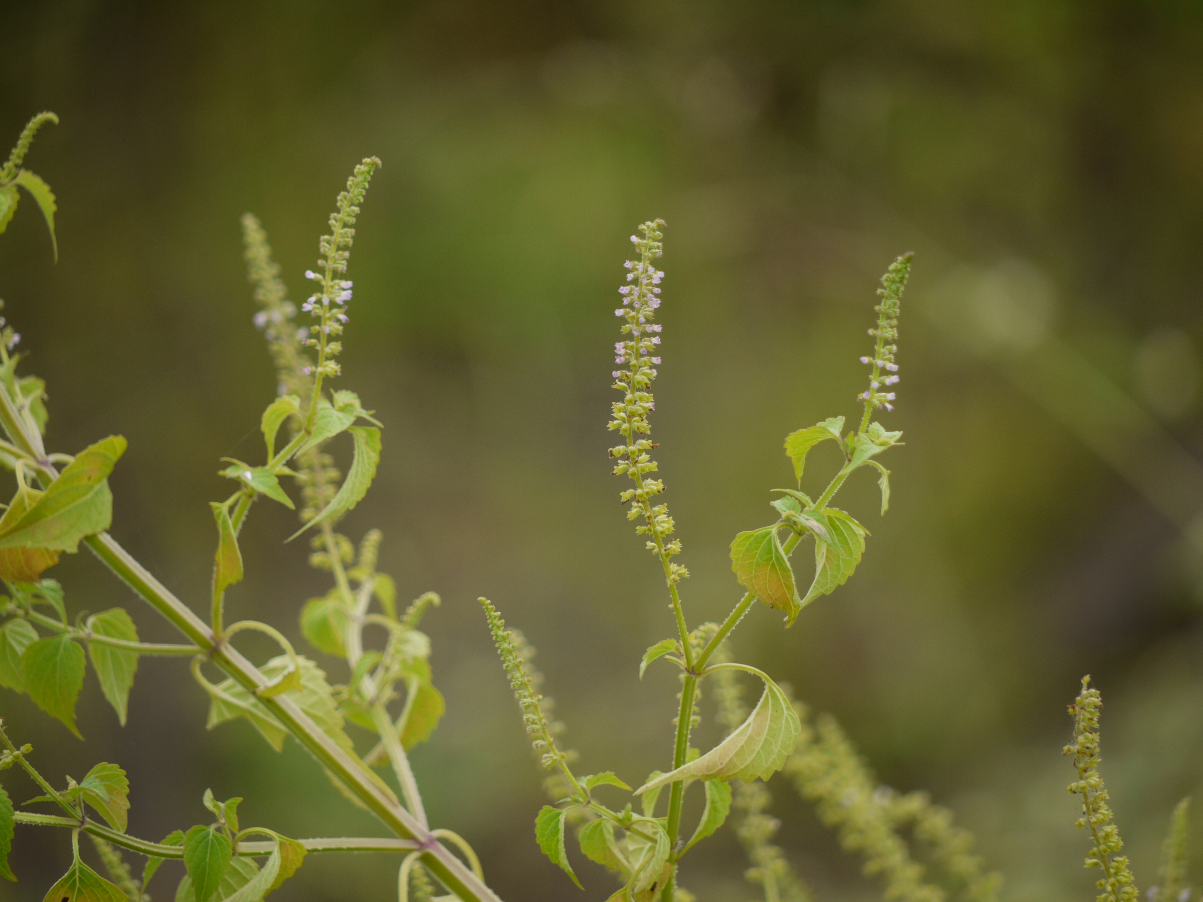 Basilicum polystachyon